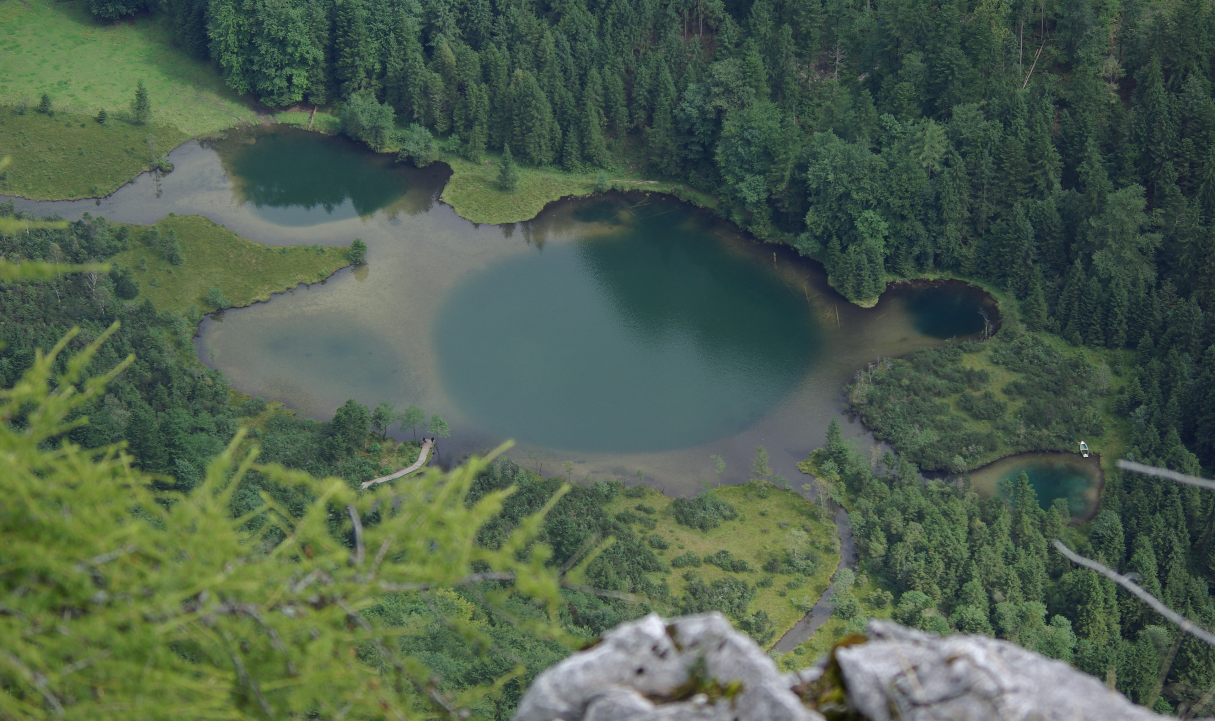 Lake Falkensee near Inzell lies in the "Östliche Chiemgauer Alpen" nature reserve (Bavaria, Germany). View from peak Falkenstein (1181 m ü. NN.) to the East. Lake Falkensee is located at 47.7482°N, 12.7663°E (720 m ü. NN.).